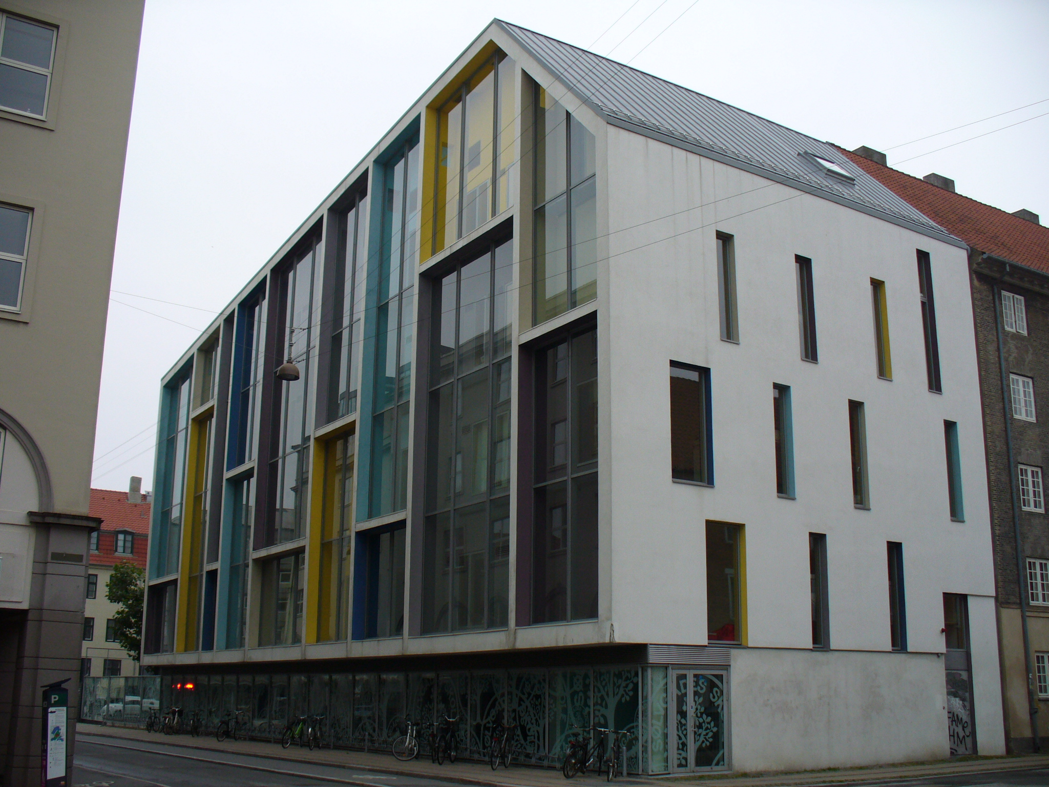 The school Sølvgade Skole at Kronprinsessegade in Indre By in Copenhagen.